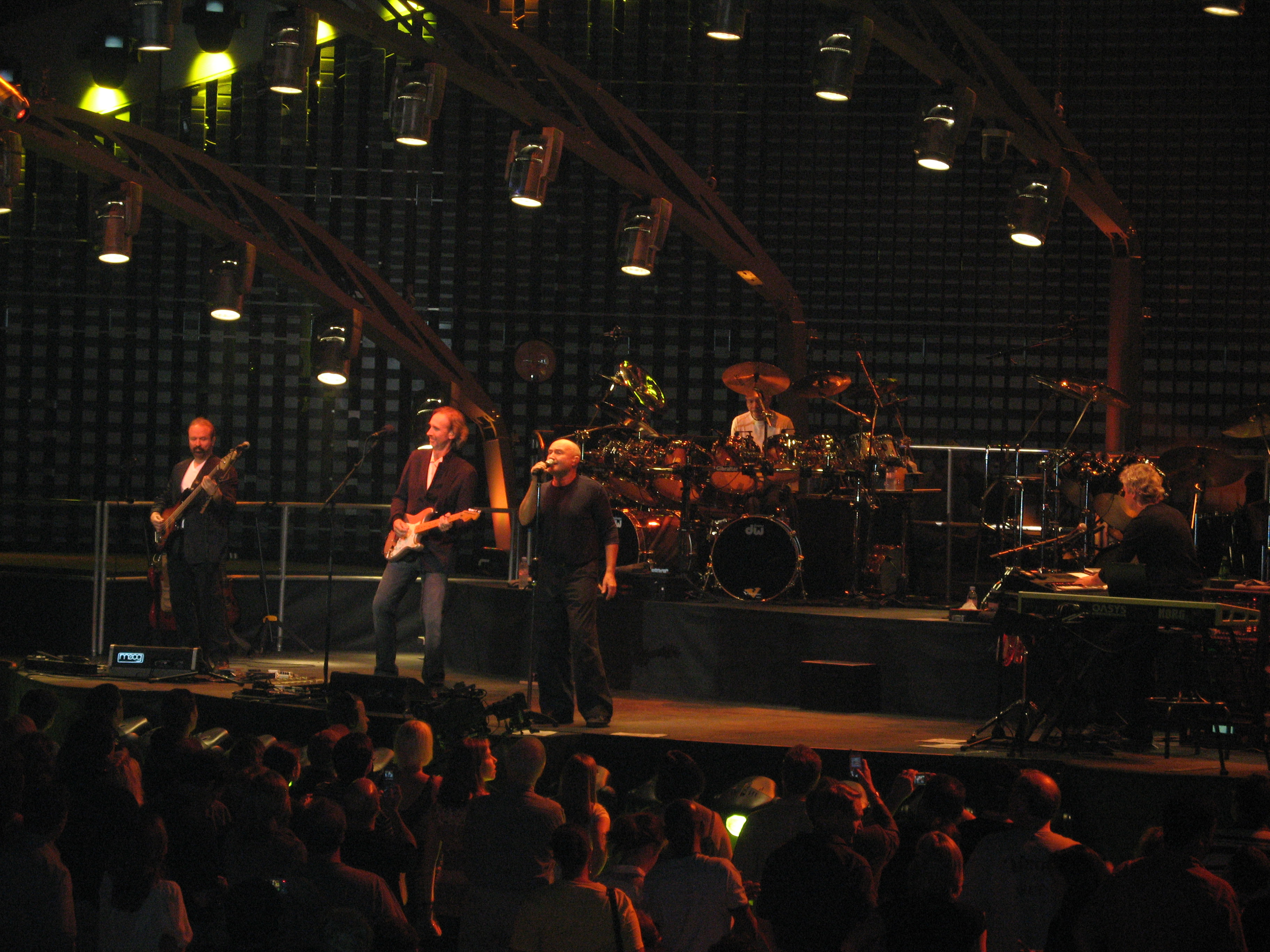 Genesis concert at the Verizon Center, Washington, D.C., USA. Performing "Land of Confusion".